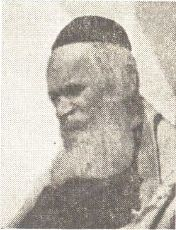 This work or image is now in the public domain because its term of copyright has expired in Israel. According to Israel's copyright statute from 2007 (translation), a work is released to the public domain on 1 January of the 71st year after the author's death (paragraph 38 of the 2007 statute) with the following exceptions: A photograph taken on 24 May 2008 or earlier — the old British Mandate act applies, i.e. on 1 January of the 51st year after the creation of the photograph (paragraph 78(i) of the 2007 statute, and paragraph 21 of the old British Mandate act). If the copyrights are owned by the State, not acquired from a private person, and there is no special agreement between the State and the author — on 1 January of the 51st year after the creation of the work (paragraphs 36 and 42 in the 2007 statute). See also category: PD Israel & British Mandate. Rabbi Yosef Schwartz